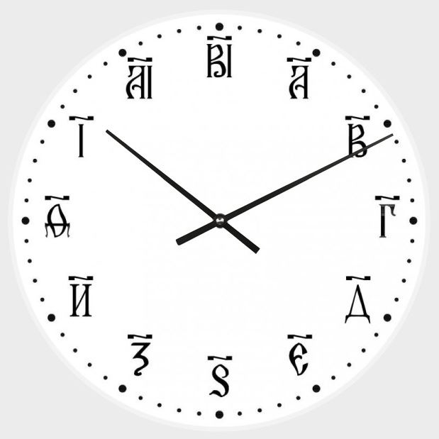 Clock with Cyrillic numerals